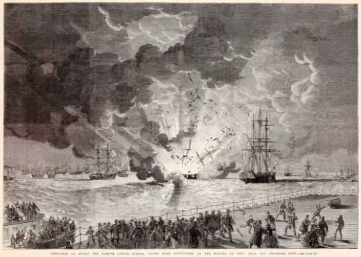 Explosion of the Lottie Sleigh from the Illustrated London News of 1862